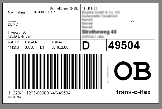 Mailing label with barcode, trans-o-flex Express Service, Italia (Alghero)